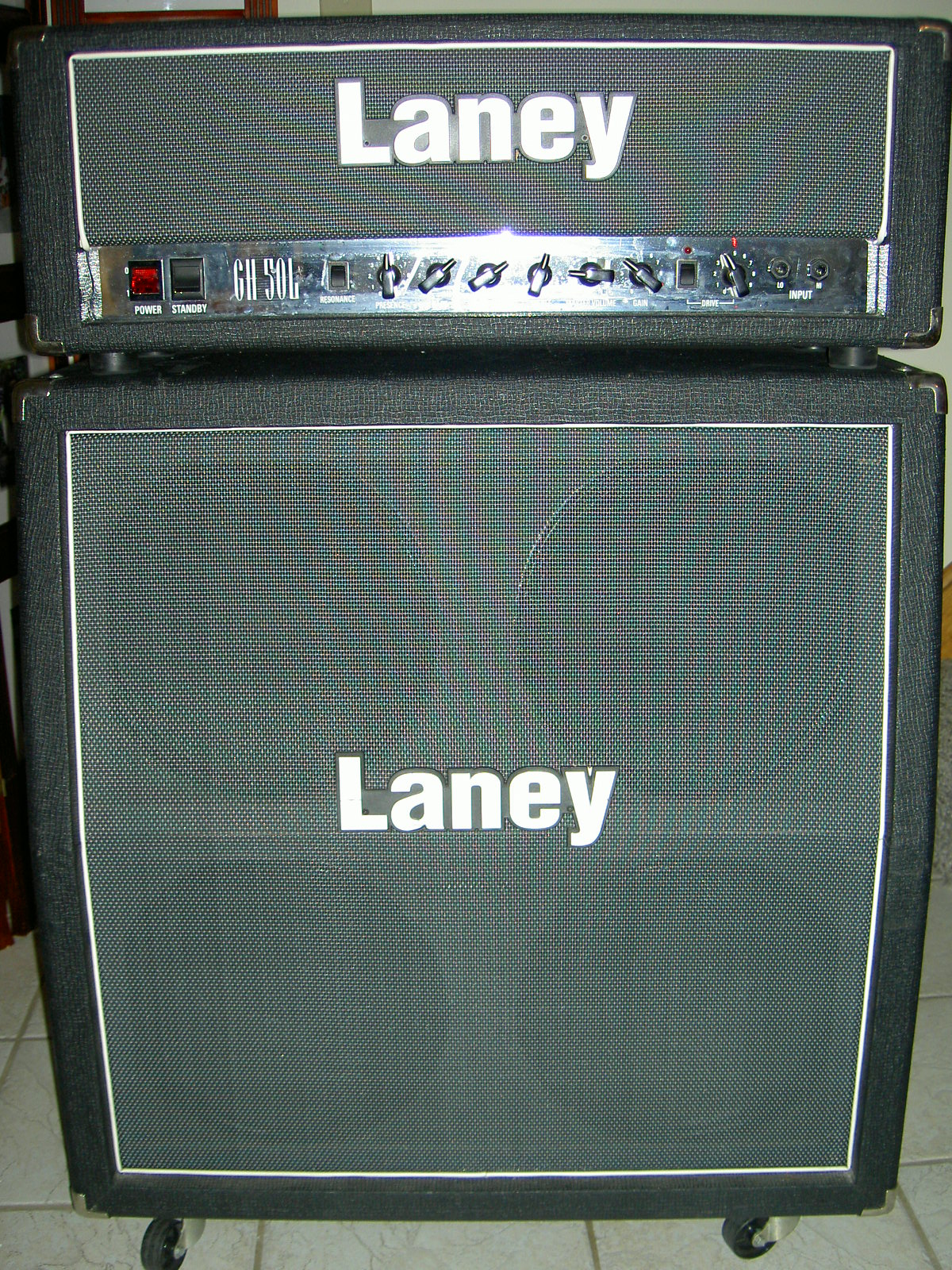 A photo of my friends Laney amplifier, taken by me.